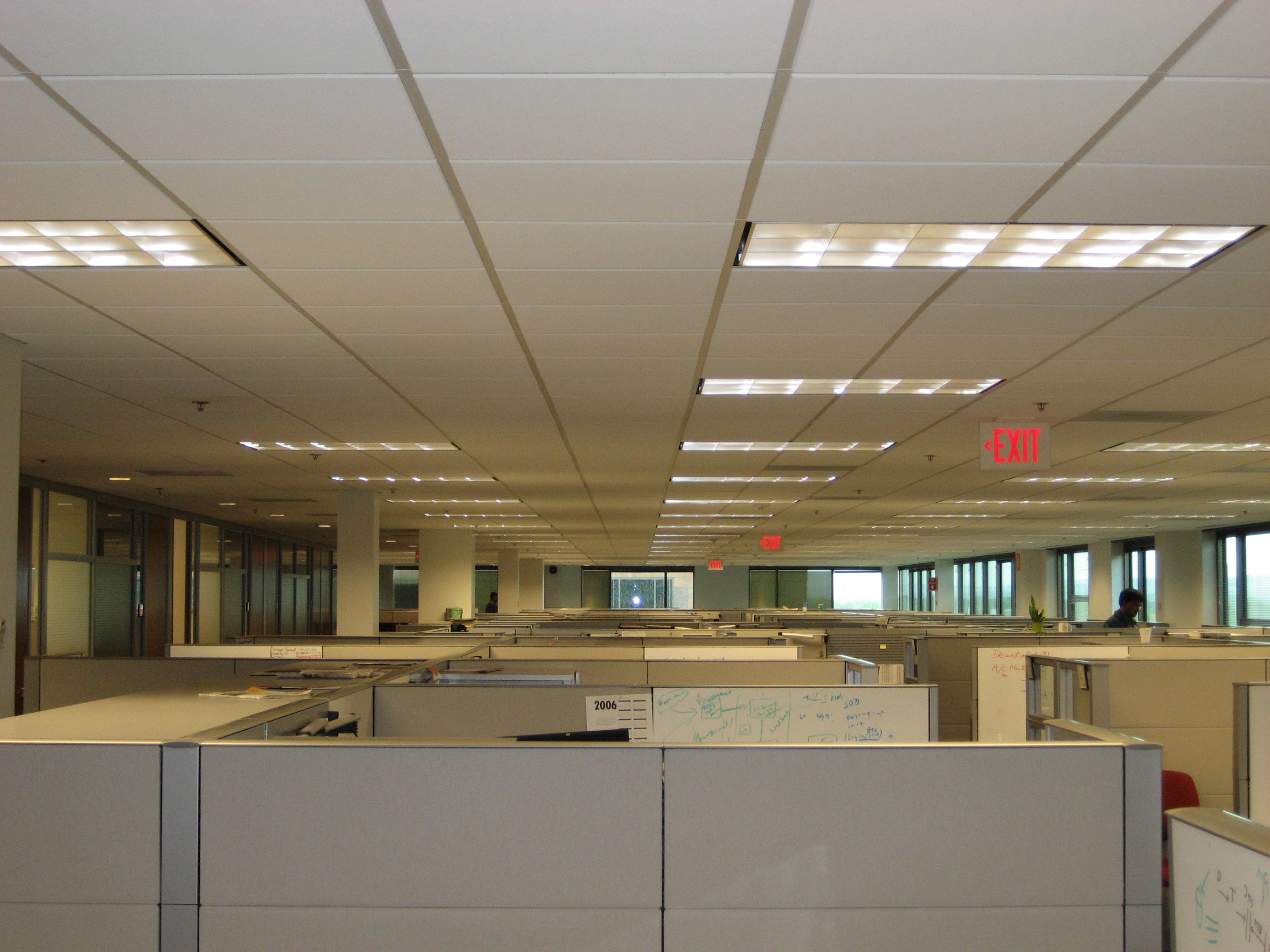 An image of a lot of cubicles that seem to go on forever